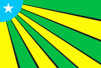 This is the proposed flag for the State of Carajas